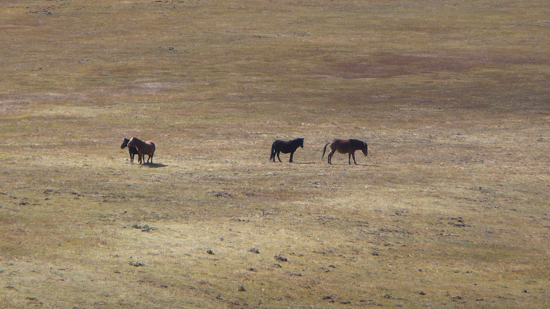 Wild horses at the Militang Pasture, Potatso (Pudacuo) National Park, Diqing